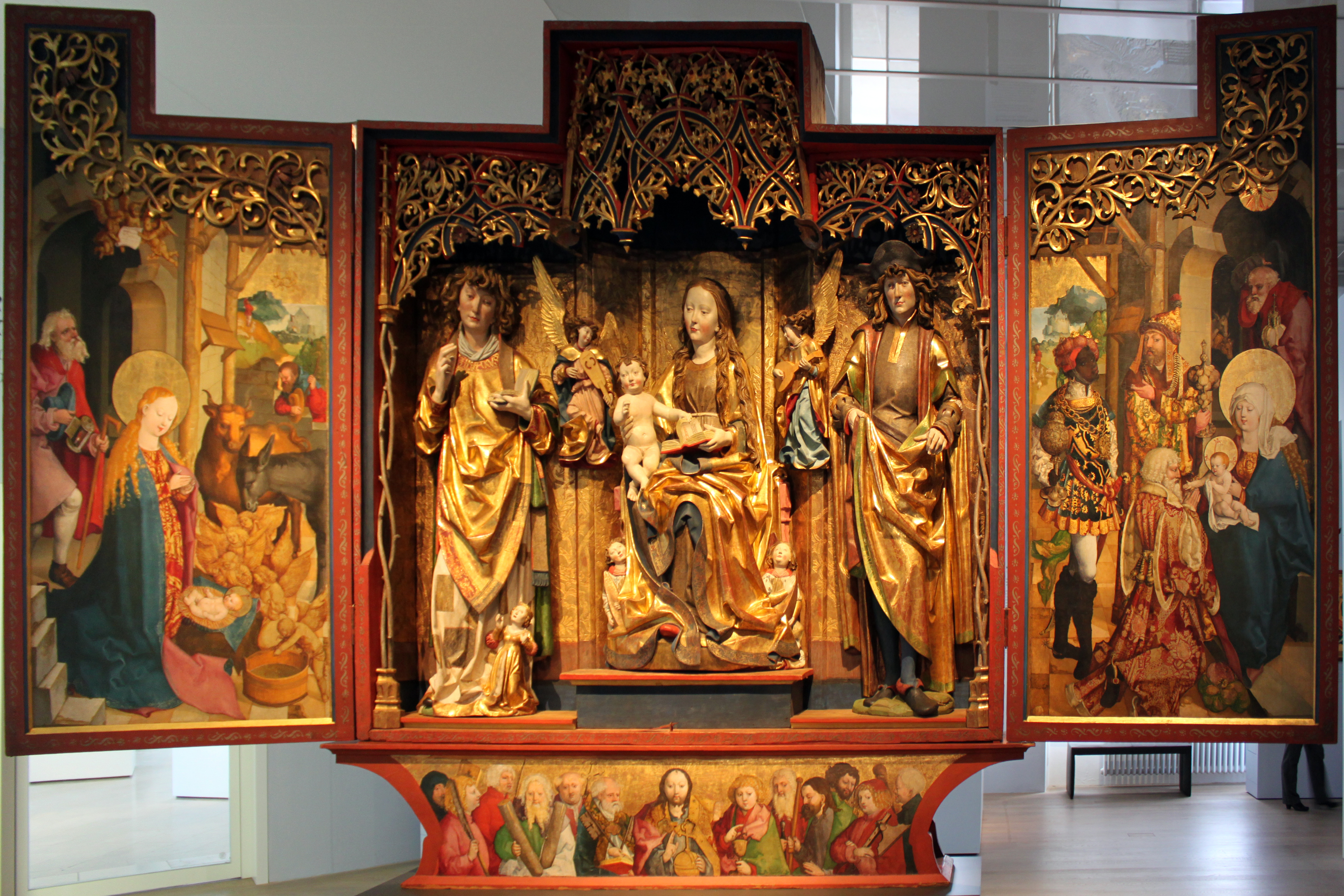 Altarpiece from the parish curch of St. Pancras and Cyriacus in Talheim with sculptures from the workshop of Niclaus Weckmann (detectable 1481-1526), Talheim district of Tübingen, first quarter 16th Century, shown at the Landesmuseum Württemberg, Stuttgart, Germany